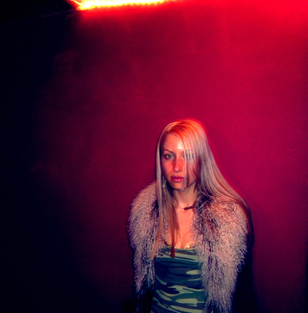 Portrait of electronic recording artist, Vaccine.